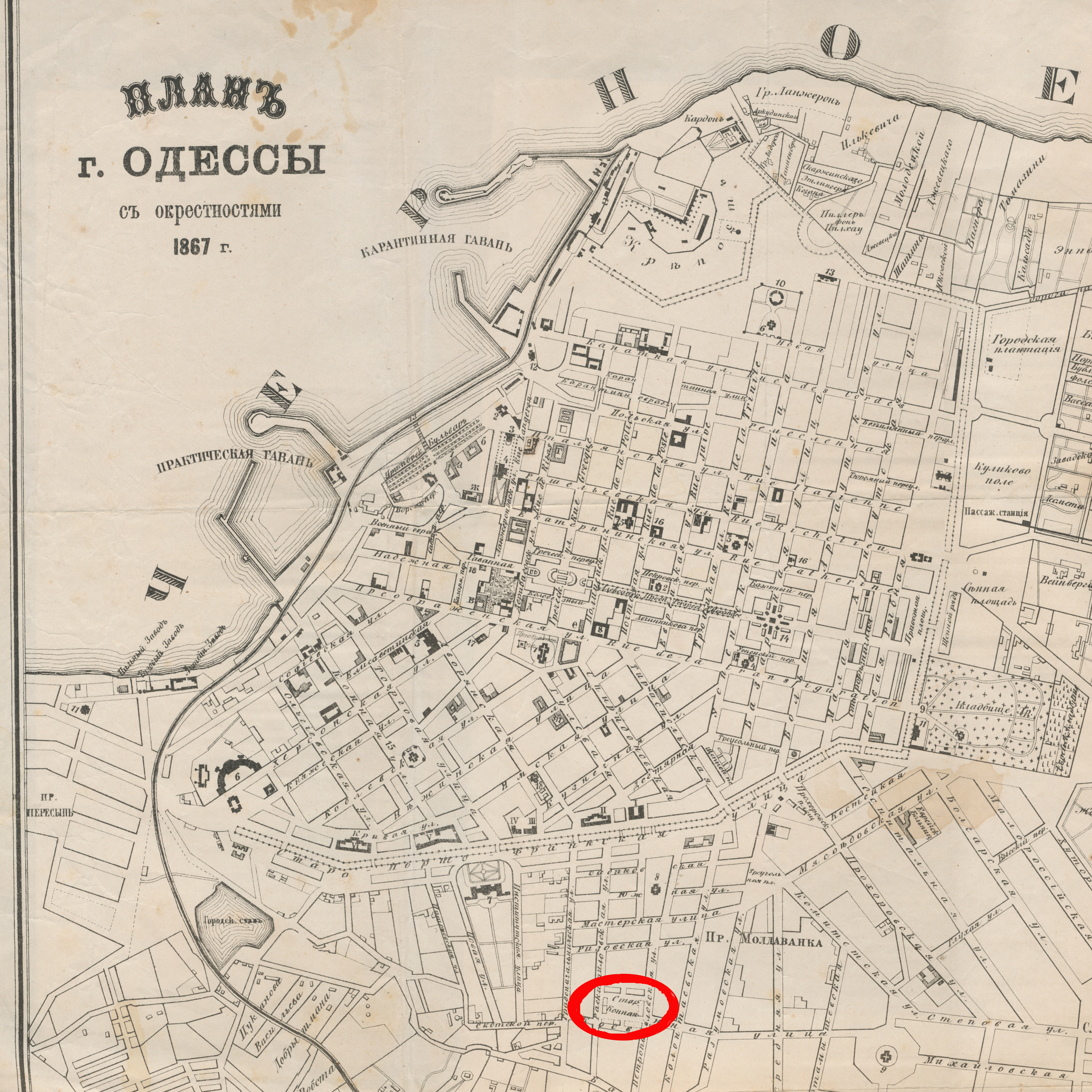 Map of Odessa